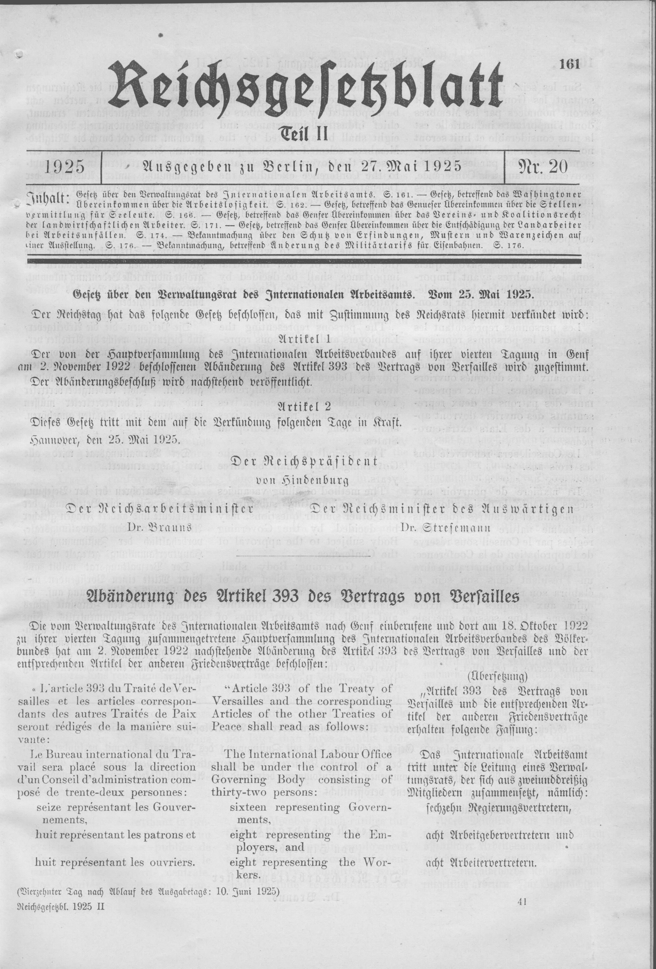 Scan from the Imperial Law Gazette of Germany, 1925, part 2